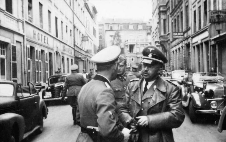 Information added by Wikimedia users.More Information on location: Luxembourg city, rue Aldringen, near Hotel Brasseur. (research by User:Jwh). --Zinneke (talk) 23:02, 3 February 2009 (UTC) Date should be 1940-09-08 cf --Jwh (talk) 23:35, 14 September 2010 (UTC)